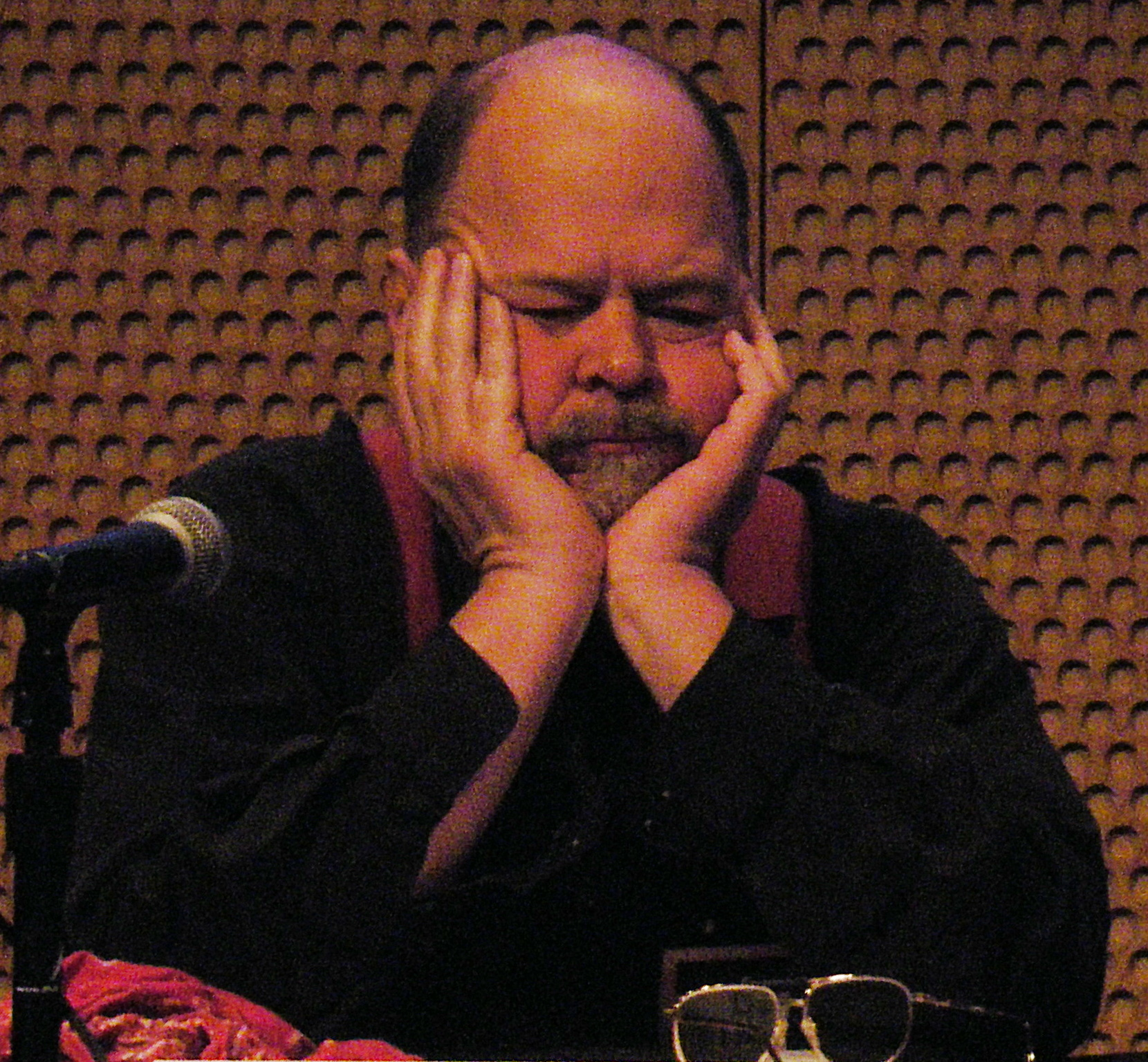 David Thomas at the 2009 Pop Conference, Experience Music Project, Seattle, Washington.